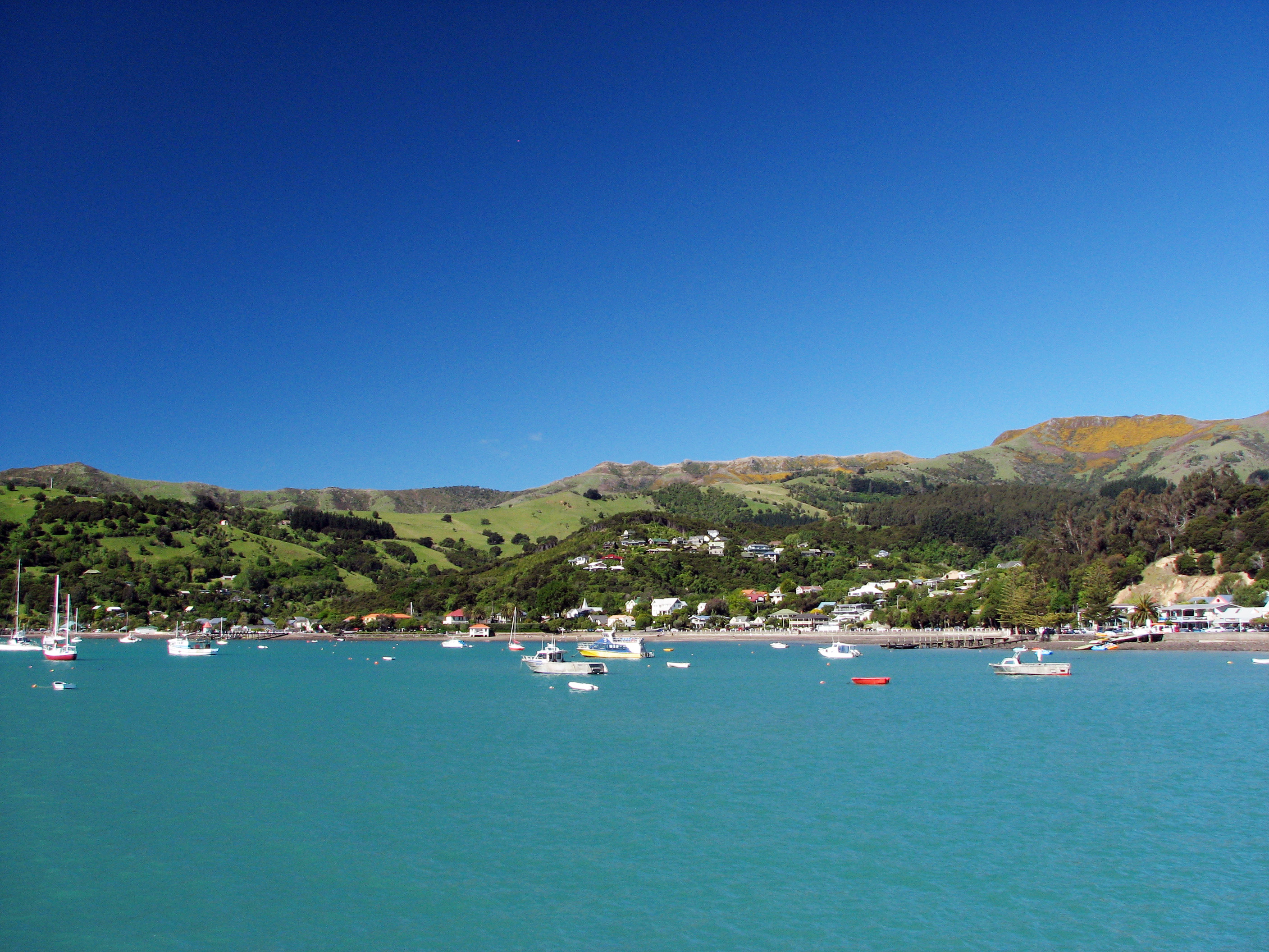 Akaroa township, Canterbury, New Zealand - taken from the end of wharf